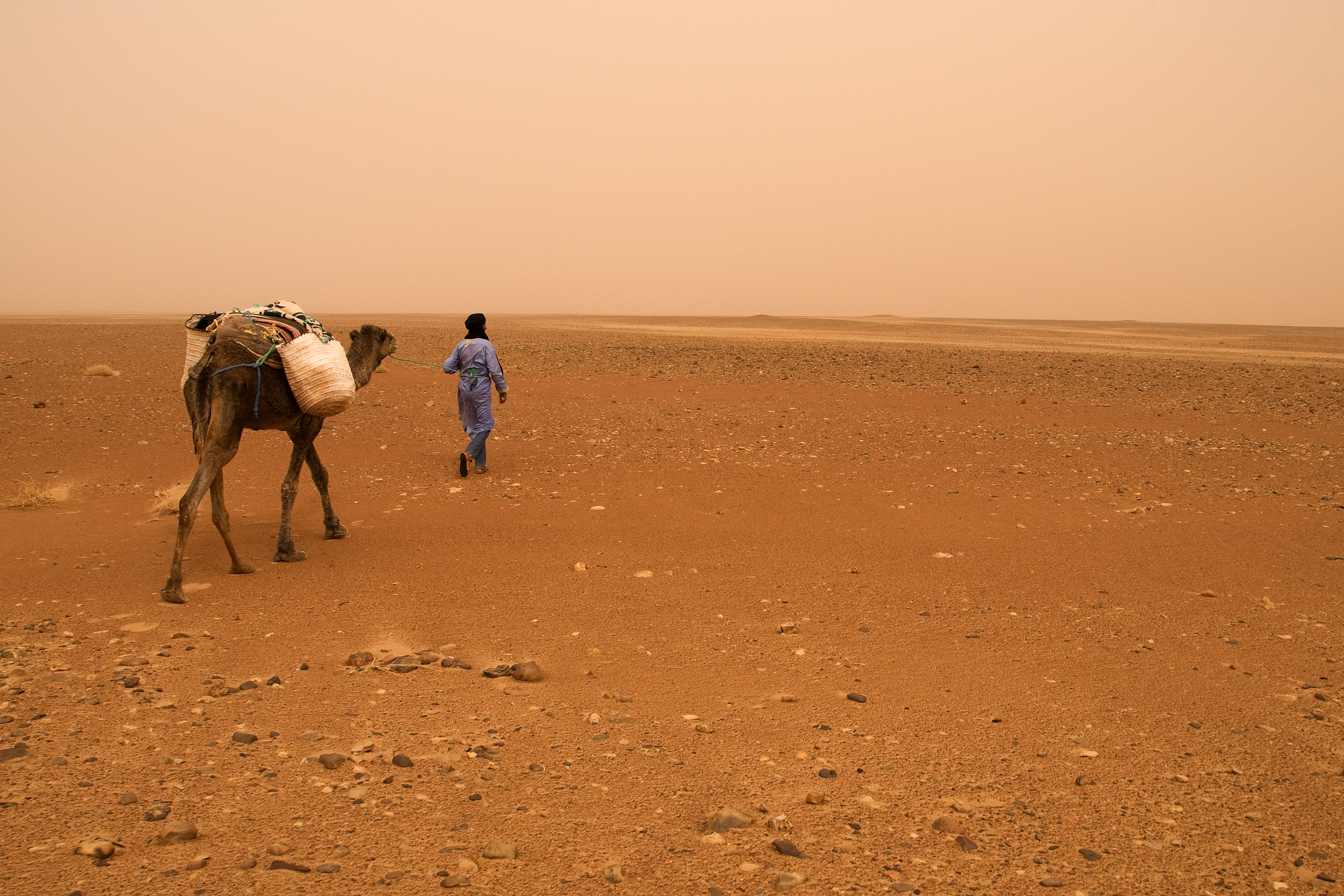 The whole set from Morocco